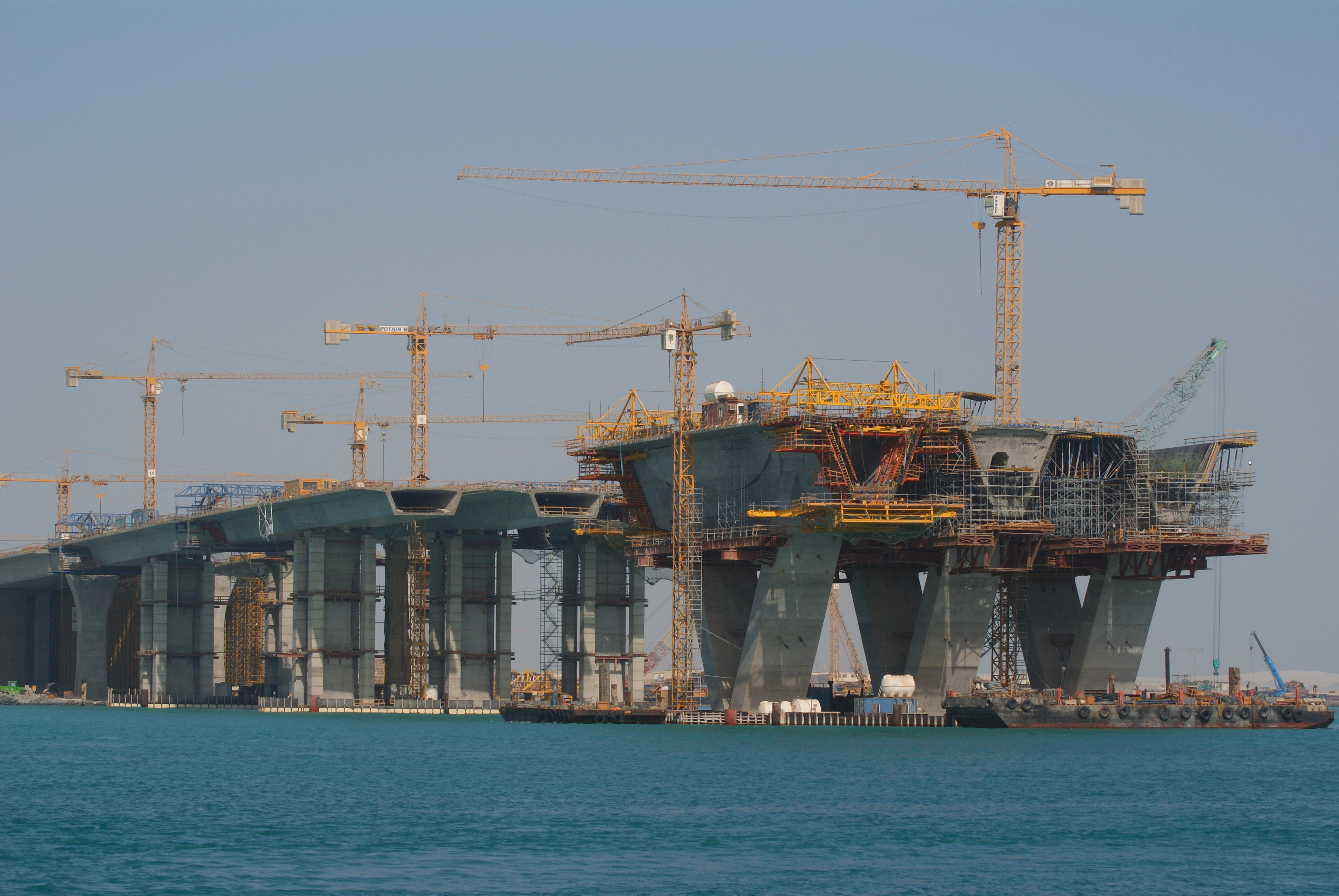 Construction of Saadiyat-Island bridge in 2008. The bridge connects Abu Dhabi and the island of Saadiyat with a 10-lane highway.